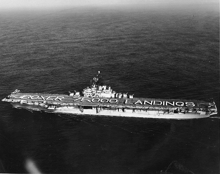 The U.S. Navy aircraft carrier USS Boxer (CVA-21) with crewmembers spelling out "Boxer 75,000 Landings" on the flight deck to commemorate reaching that milestone in her career. The landing was made on 19 November 1955 by Lieutenant (Junior Grade) Charles R. Smith, and his crewman, Roland W. Parker, flying a Douglas AD-5N Skyraider of Composite Squadron 35 Det. F "Night Hecklers". The original photograph was released by Commander Naval Forces Far East on 28 November 1955.